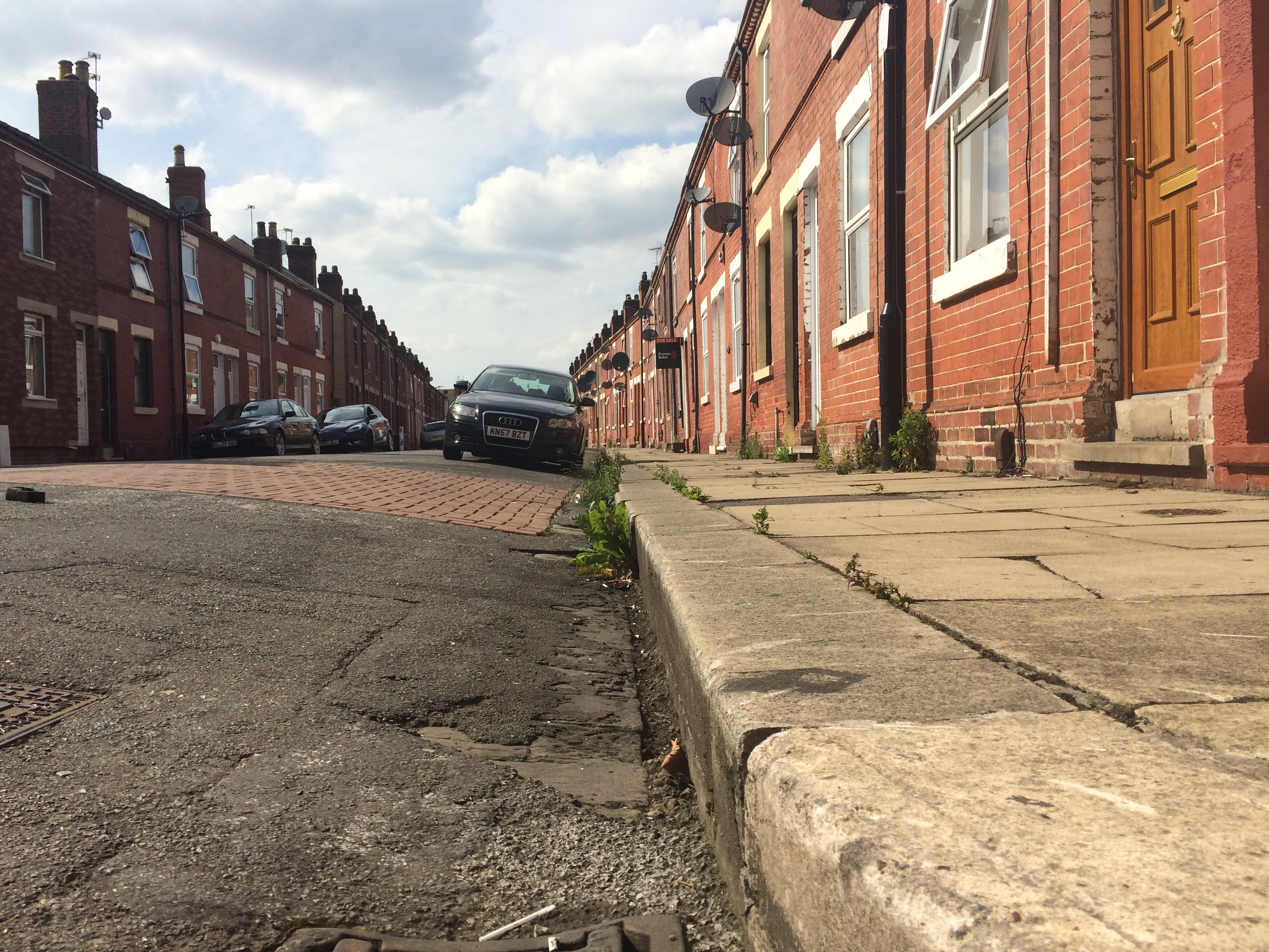 A view of the camber at the end of Ellerker Avenue, Doncaster, from the gutter.